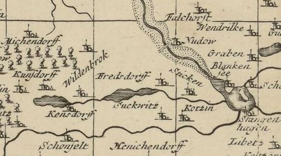 Part of Marcia media vulgo middle mark in Brandenburg